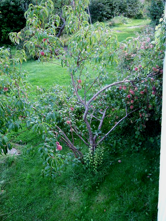 Peach-tree, Høvåg, Norway.